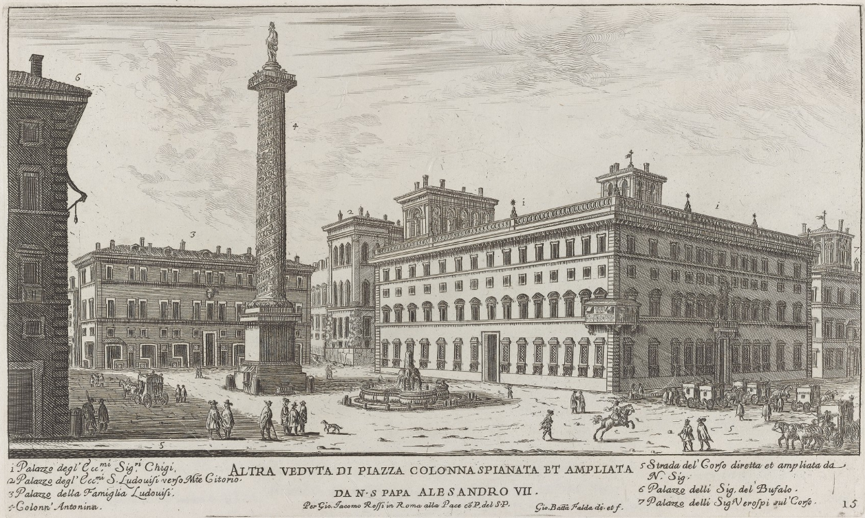 View of the Piazza Colonna (Column Square, taking its name from the Antonina Column, known today as the Column of the Roman emperor Marcus Aurelius, indicated as #4 in the image). The view includes several buildings belonging to aristocratic families: Chigi (1 in the image), also the family of the Pope Alexander VII; Ludovisi (2 and 3 in the image); del Bufalo (6 in the image); and Verospi (7 in the image).